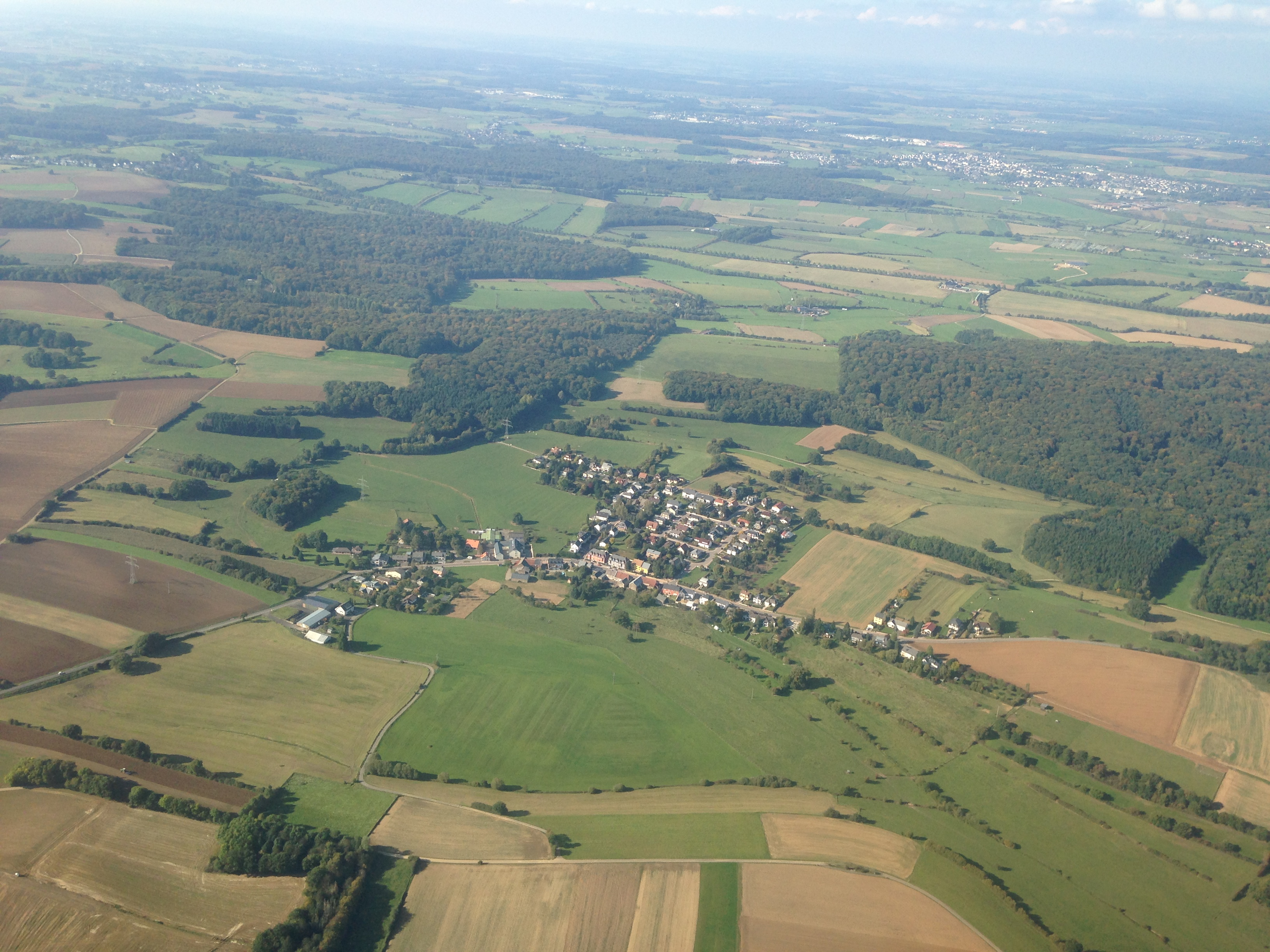 Aerial view of Roetgen (Riedgen) in Luxembourg.